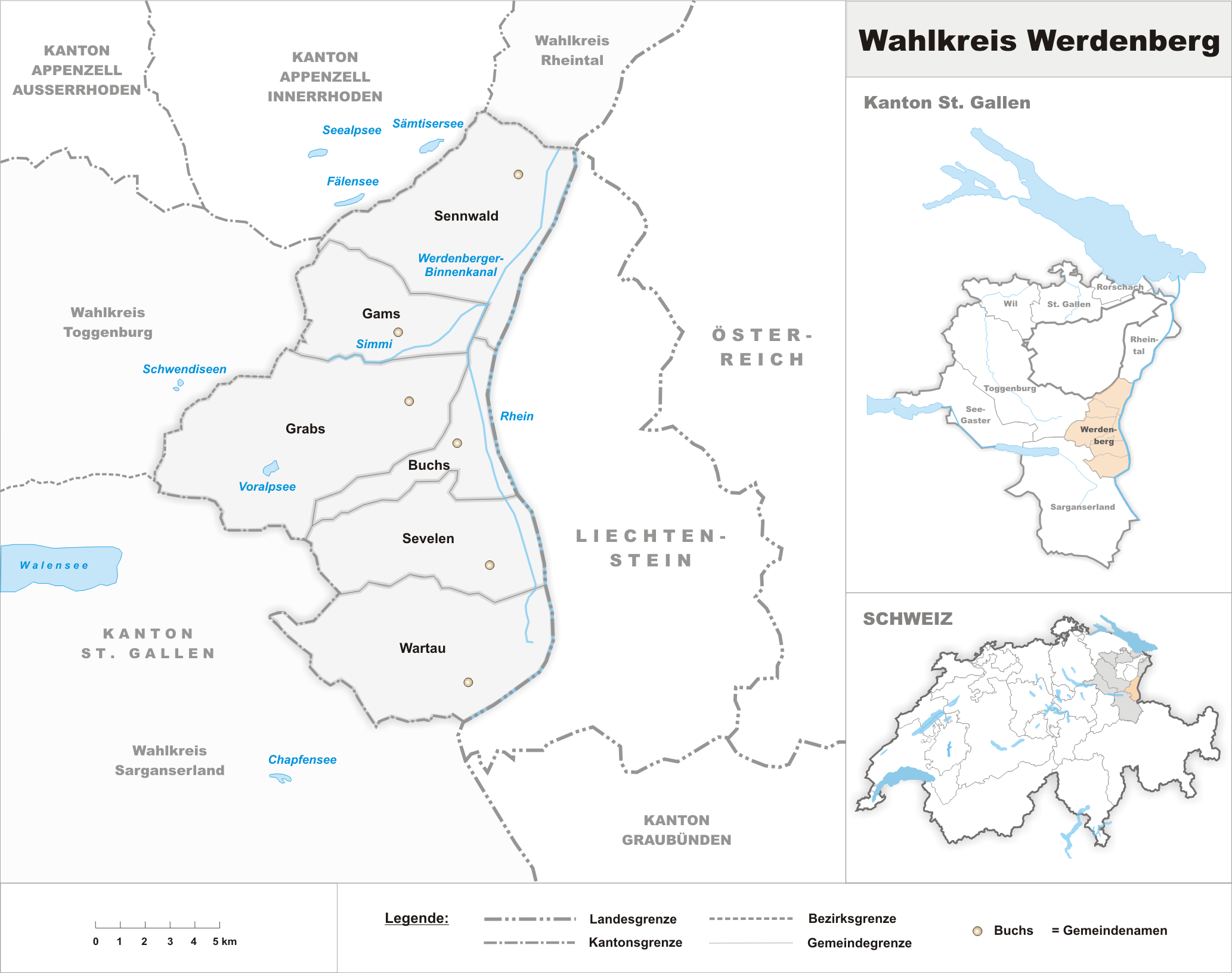 Municipalities in the district of Werdenberg